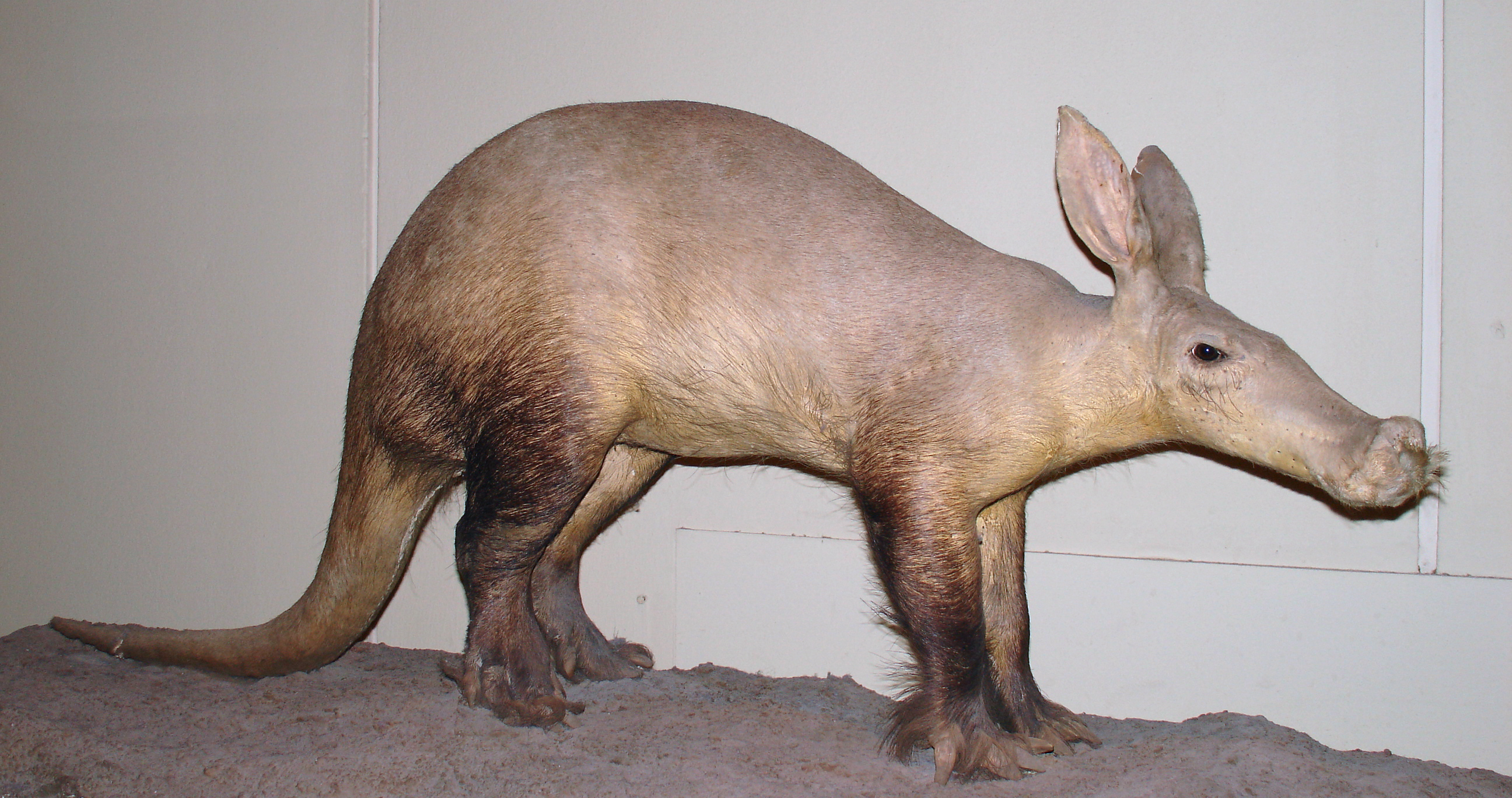 Orycteropus afer - stuffed. The exhibit from the Museum of Natural History in Berlin (Museum für Naturkunde)